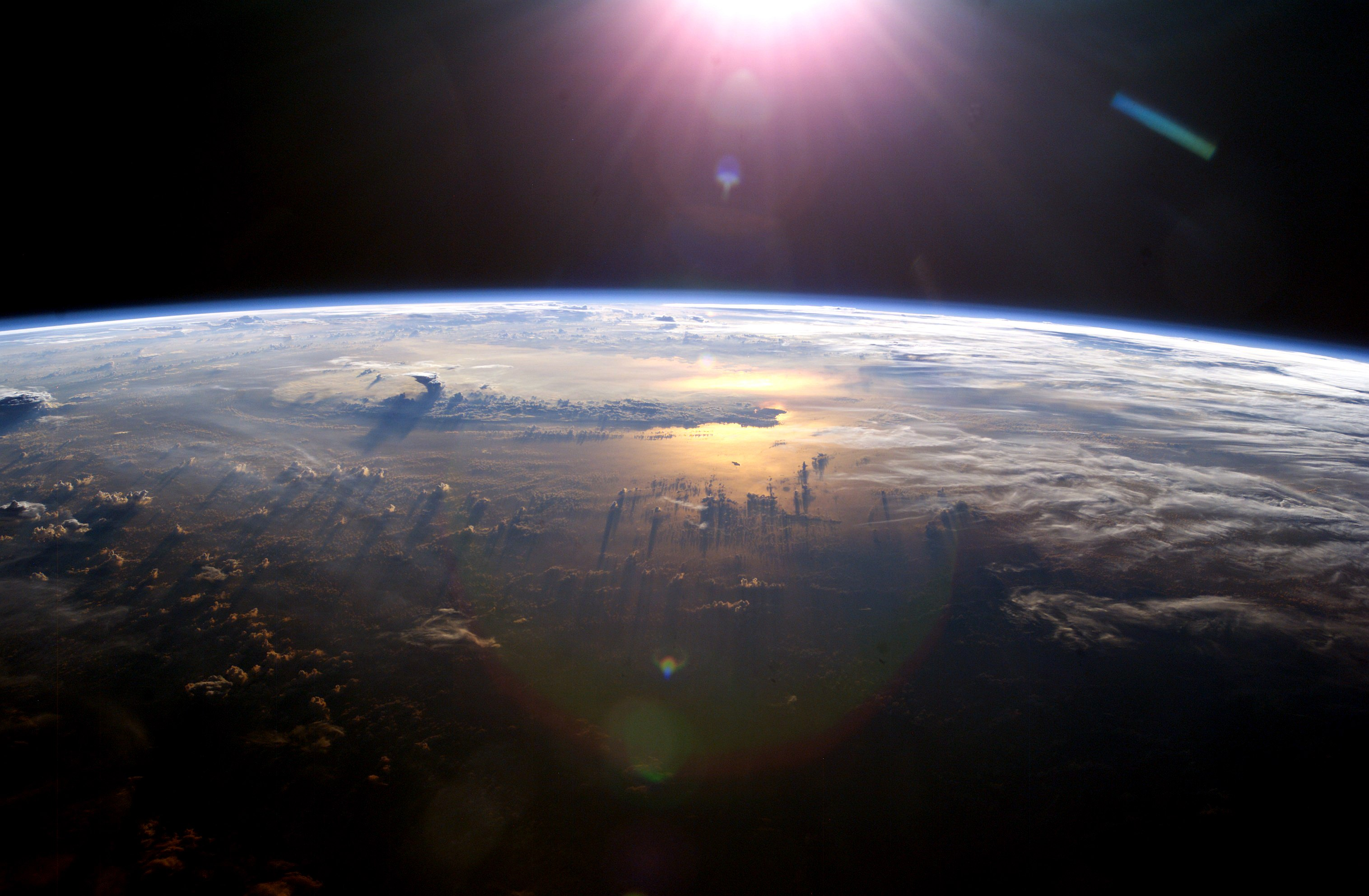 This view of Earth's horizon as the sun sets over the Pacific Ocean was taken by an Expedition 7 crew member onboard the International Space Station (ISS). Anvil tops of thunderclouds are also visible.